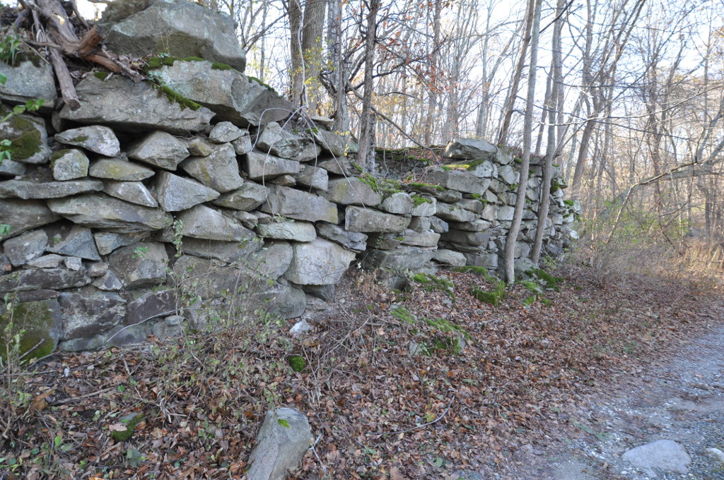 Remnant of an 18th or early 19th-century Lime Kiln on Sherman Avenue in Lincoln, Rhode Island.